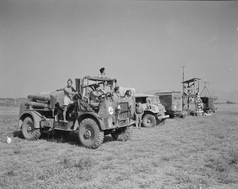 Royal Air Force Operations in Malta, Gibraltar and the Mediterranean, 1940-1945. Operation DRAGOON: the Allied invasion of Southern France. The crash tender (Crossley Q30) of No. 111 Squadron RAF lined up with the flying control 'tower' and vehicles at Sisteron, as aircraft of the squadron fly in from Ramatuelle.